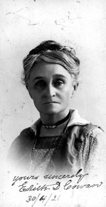 This is a photograph of Edith Cowan (1861–1932), first woman elected to an Australian parliament. The original photograph is a sepia photoprint 21 x 10 cm. The handwritten text says "Your sincerely Edith Cowan 30/4/1921".